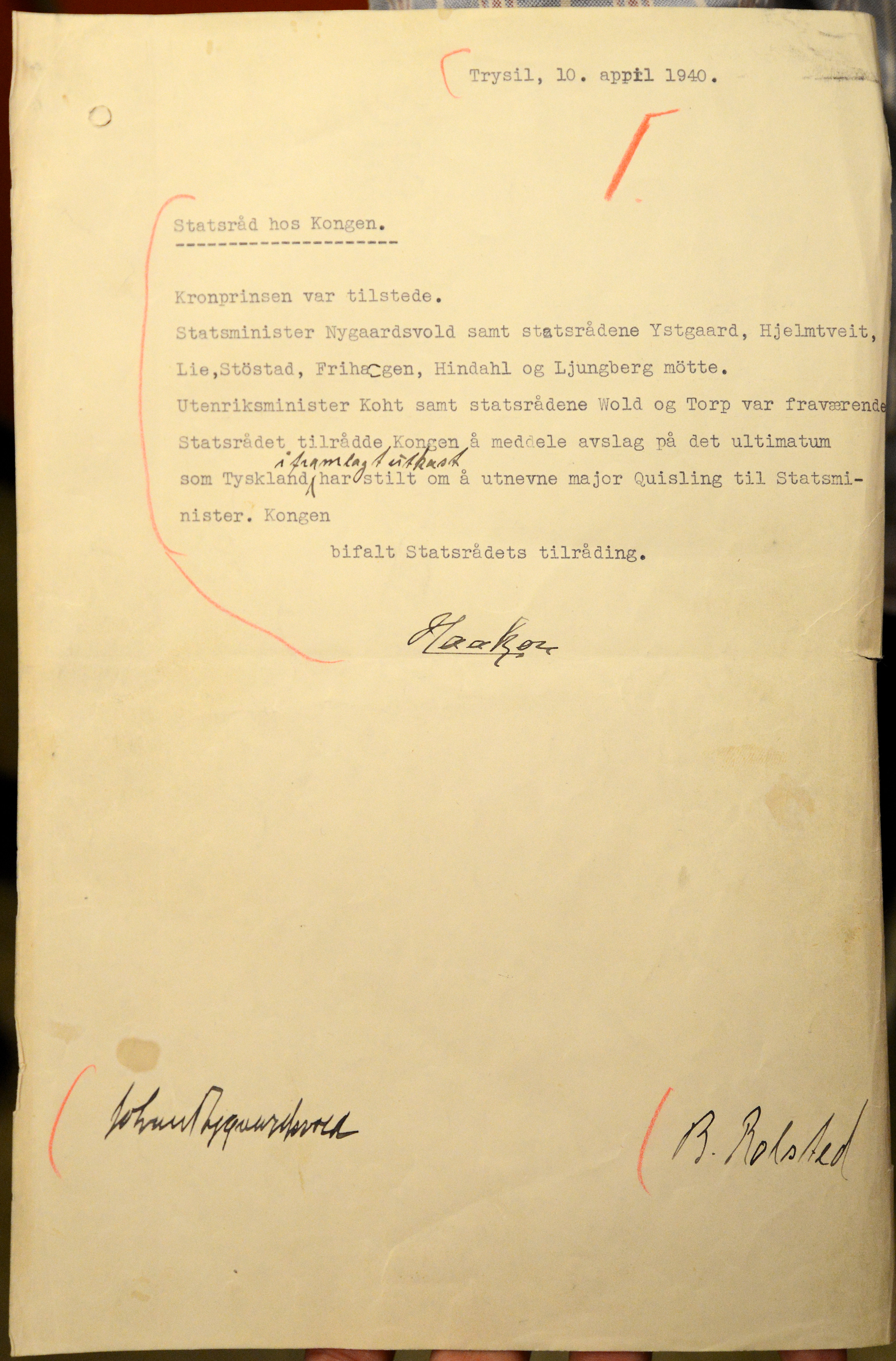 Riksarkivet - Kongens nei links: [1] [2]